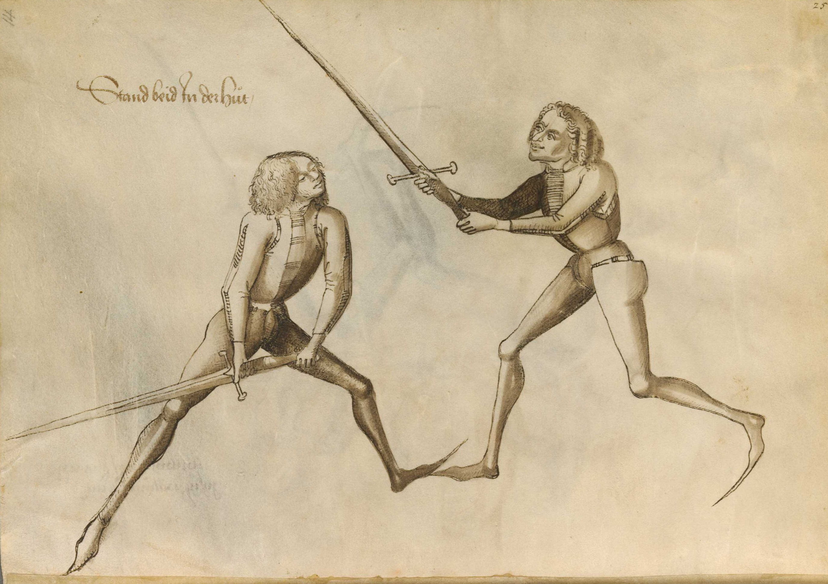 This is a scan of the historical Fechtbuch ('fencing book') by German fencing master Hans Talhoffer.